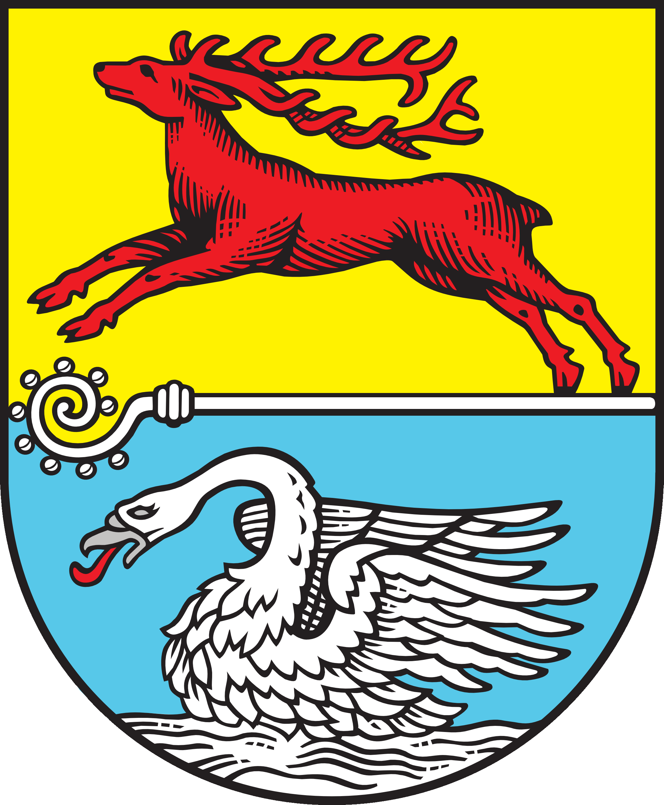 Coat of arms of Bad Doberan